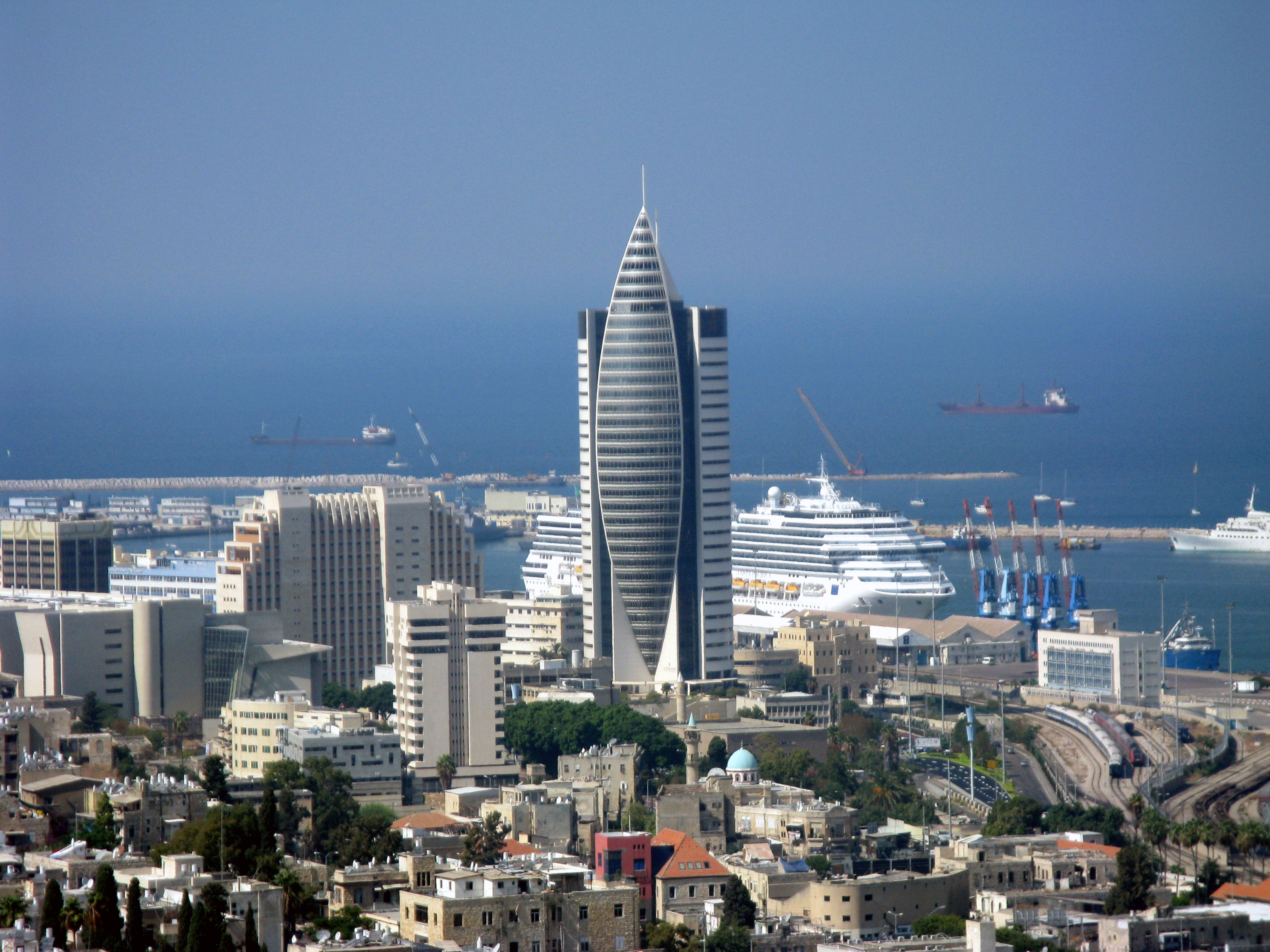 Sail Tower, view from Yad-le-Banim